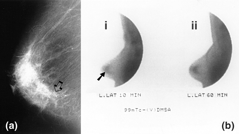 A 4.5-cm ductal carcinoma in situ of the left breast, comedo, solid and cribriform type (patient 18). (a) Mammography, medio-lateral projection. Microcalcifications (transparent arrow) behind the nipple. (b) Scintimammography, left lateral projection: 99mTc-(V)DMSA at 10 min and 60 min (i-ii). Diffuse semi-lunar accumulation (arrow) extending behind the nipple, more prominent in the late image. 99mTc-Sestamibi scan was not performed in this patient.